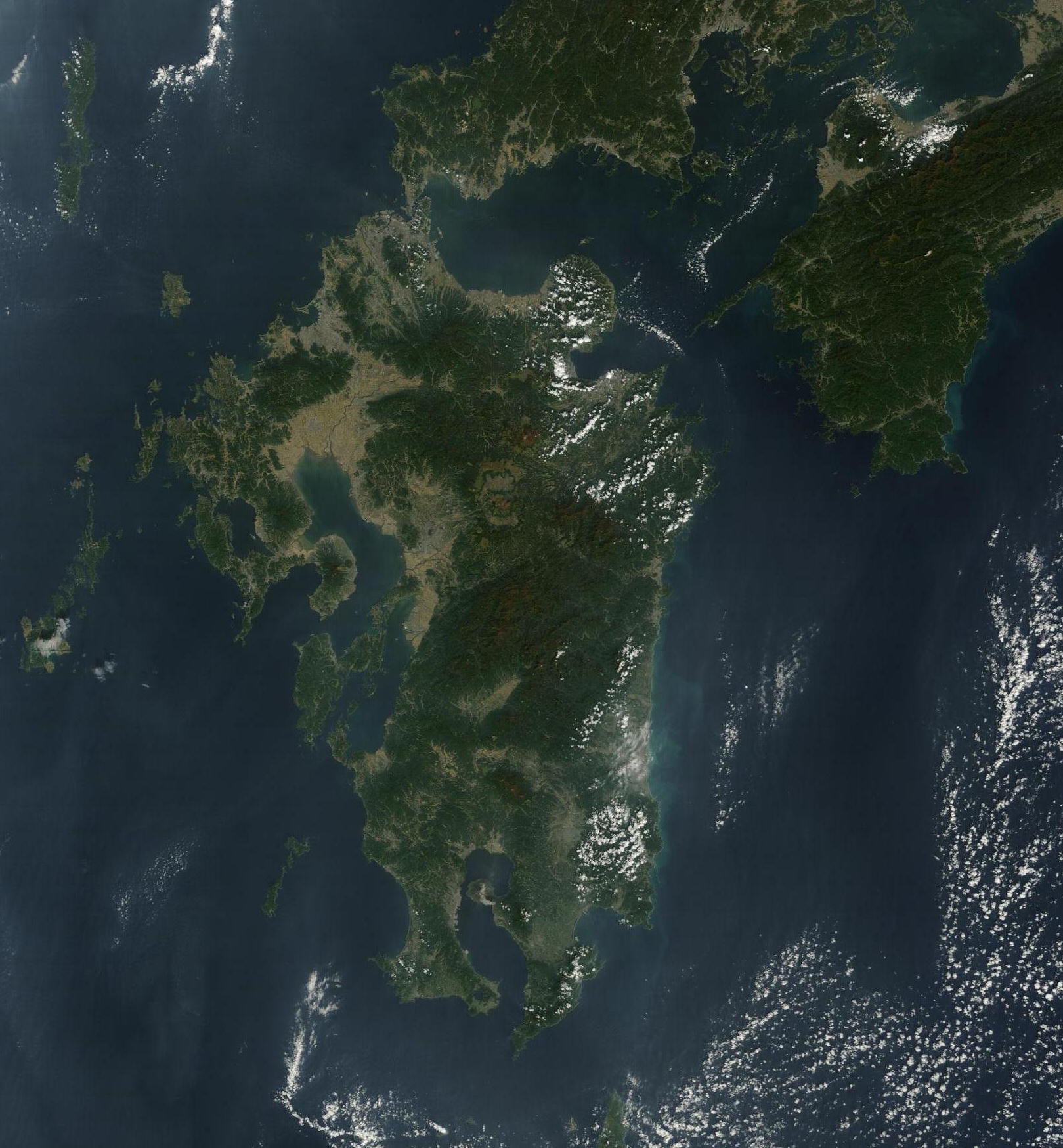 Terra's satellite picture of Kyushu, Japan. 01:55 - 02:00, October 27, 2009(UTC)